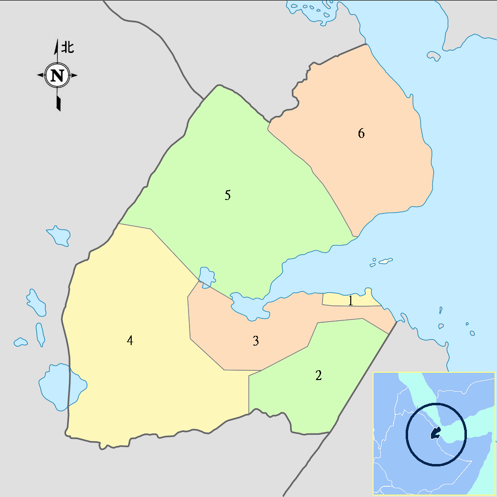 Djibouti regions in chinese